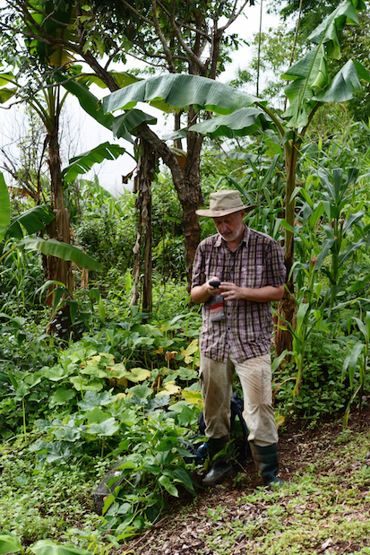 Serge Morand at Chiang Rai (Thailand) in August 2017